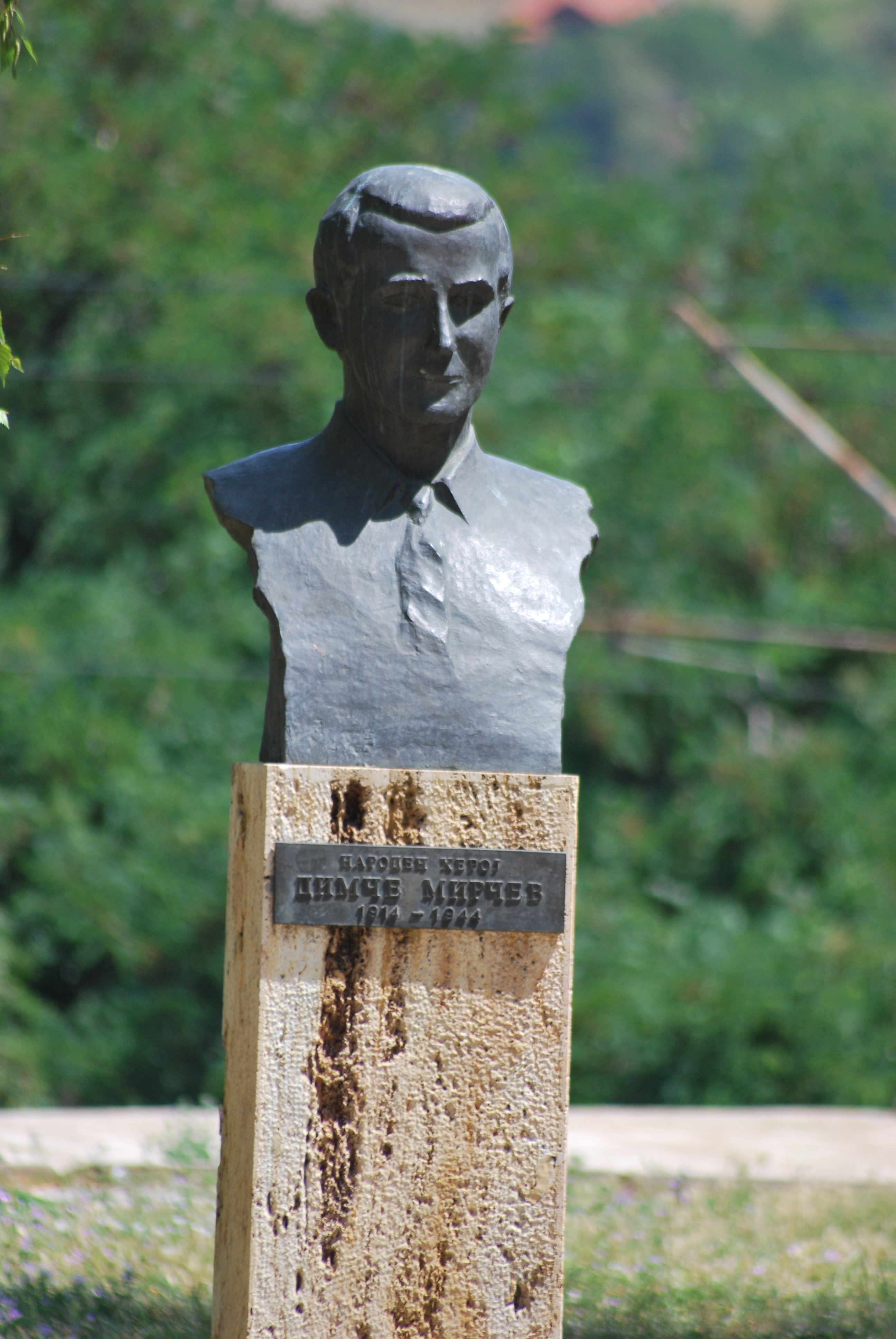 This image is uploaded as part of the picture contest Wiki Loves Cultural Heritage in Macedonia 2013. English | македонски | +/− Биста на Димче Мирчев во Велес